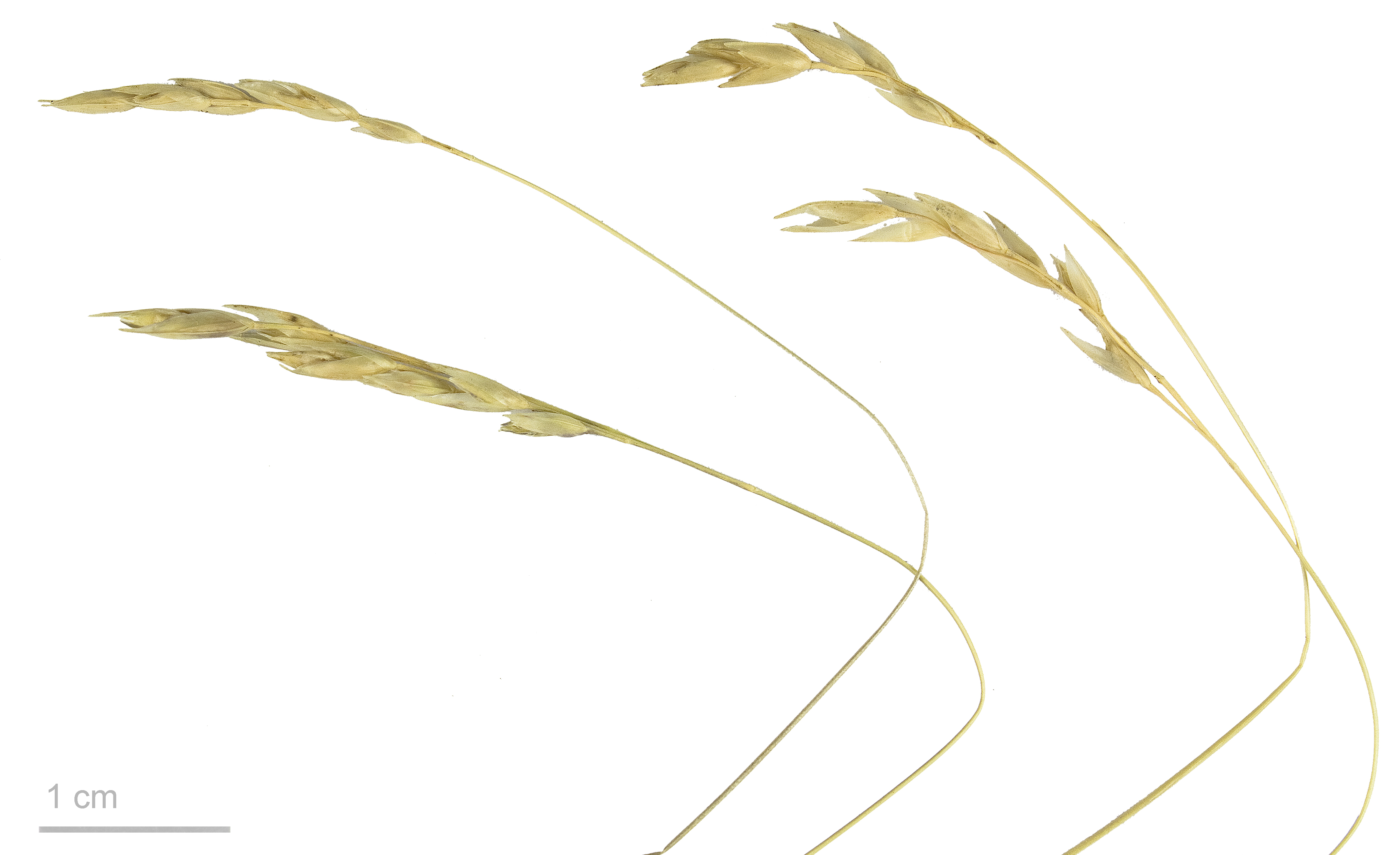 common heath grass , fruits and seeds